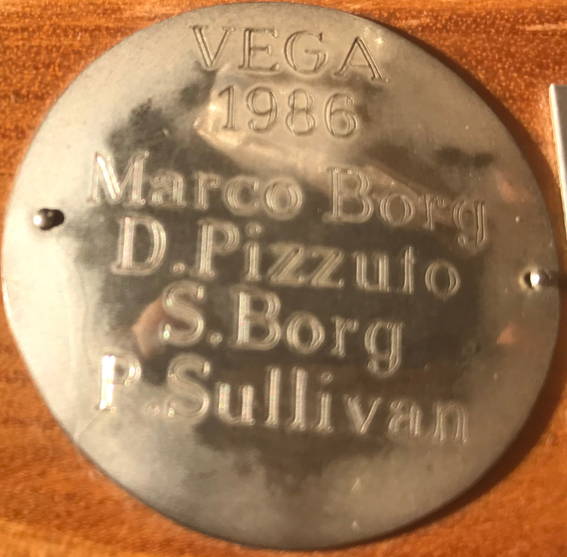 Patch on the Trophy